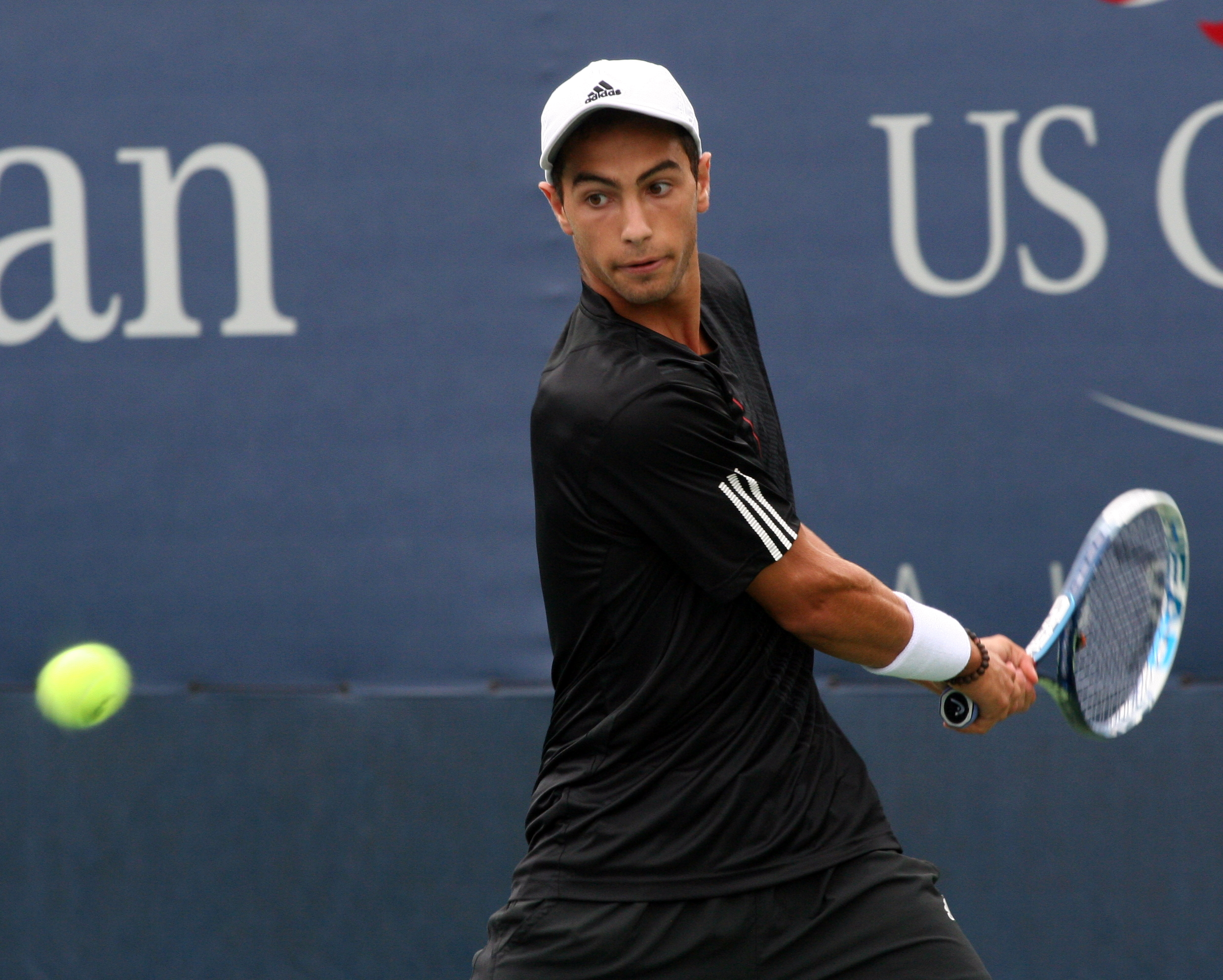 U.S. Open Juniors Tuesday, Sept. 3, 2013